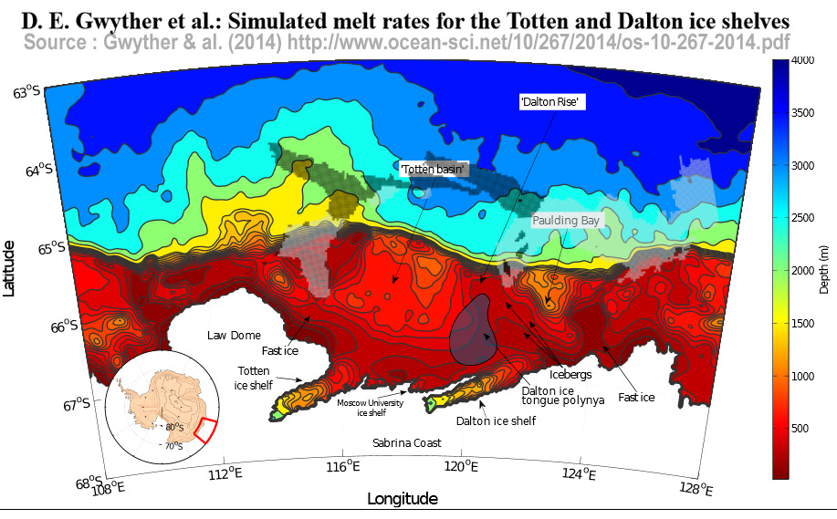 Model bathymetry and domain. The contour interval is 100 m up to 1500 m depth and 500 m up to 4000 m depth. Ice shelves and icebergs (dark shading), fast ice (bright shading), polynya (mauve shading with dark outline) and major bathymetric features are indicated. Inset shows model domain location in Antarctica